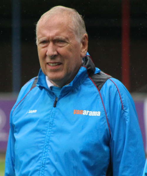 Martin Tyler coaching Hampton & Richmond Borough in July 2017.